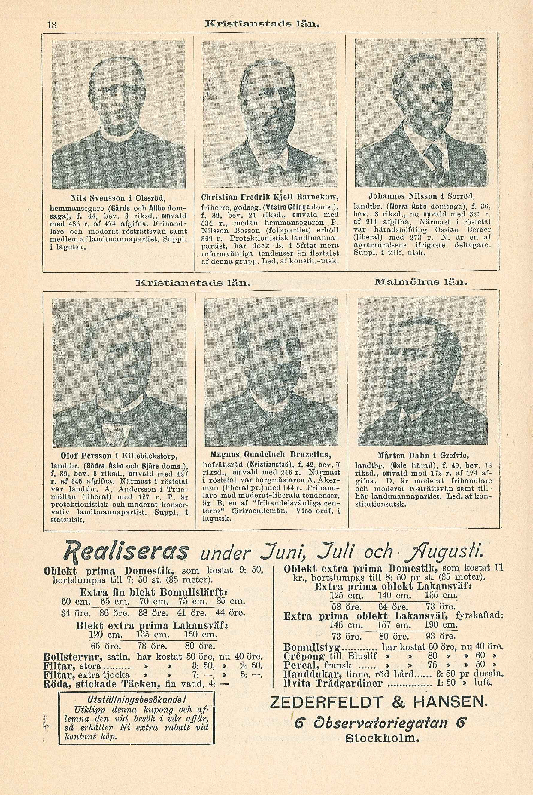 Page 18 of an album featuring portraits of all the members of the second chamber of the Swedish parliament (Sveriges riksdag) elected in 1897. This page featuring parts of the members representing the counties of Kristianstad and Malmöhus.